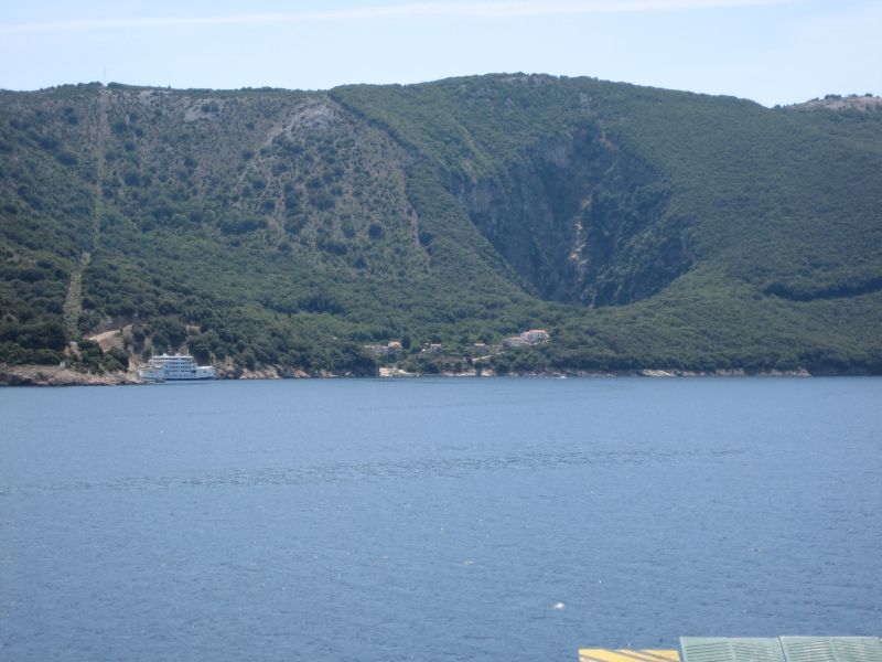 Merag, Cres, Croatia